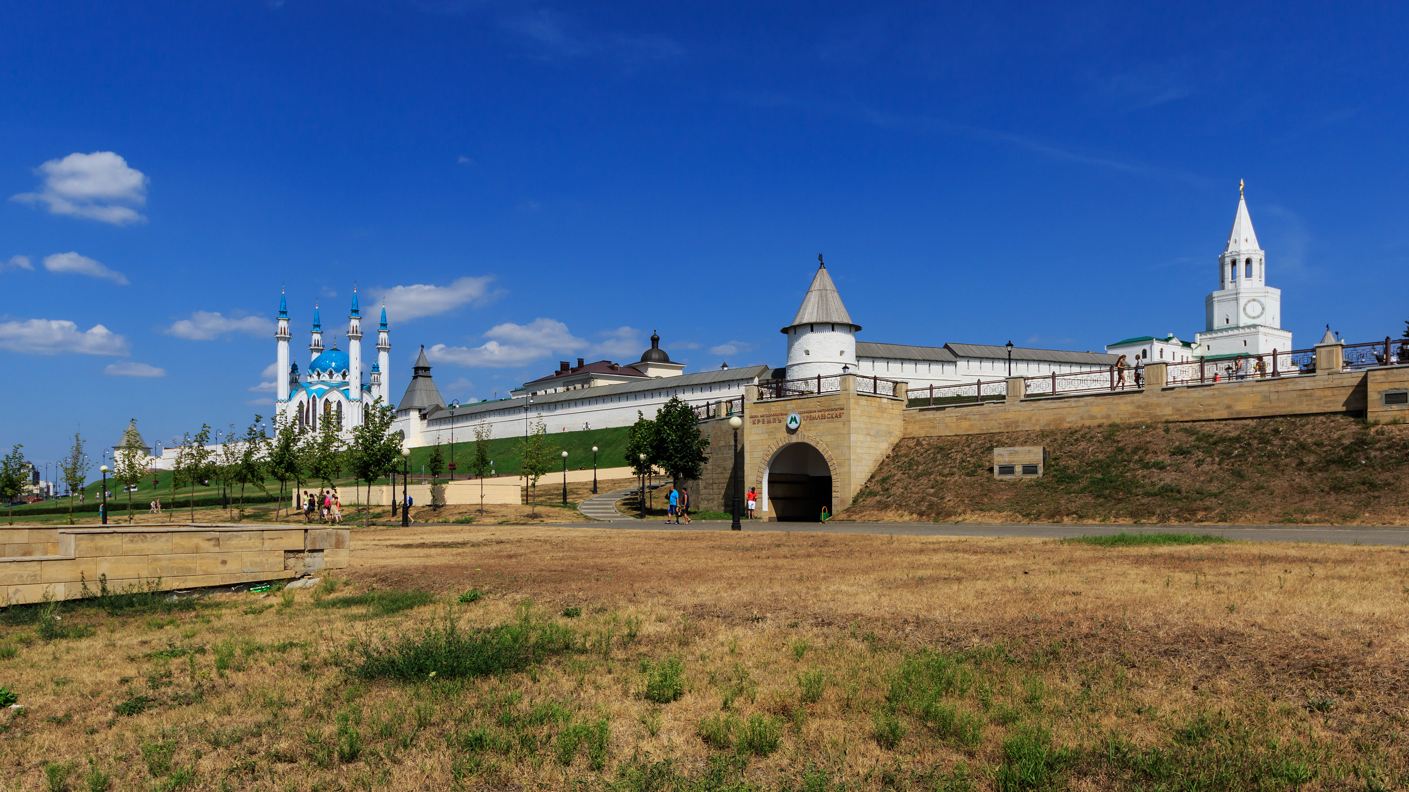 Exterior view of the Kremlin in Kazan, Russia. In the foreground: an entrance of Kremlyovskaya metro station.